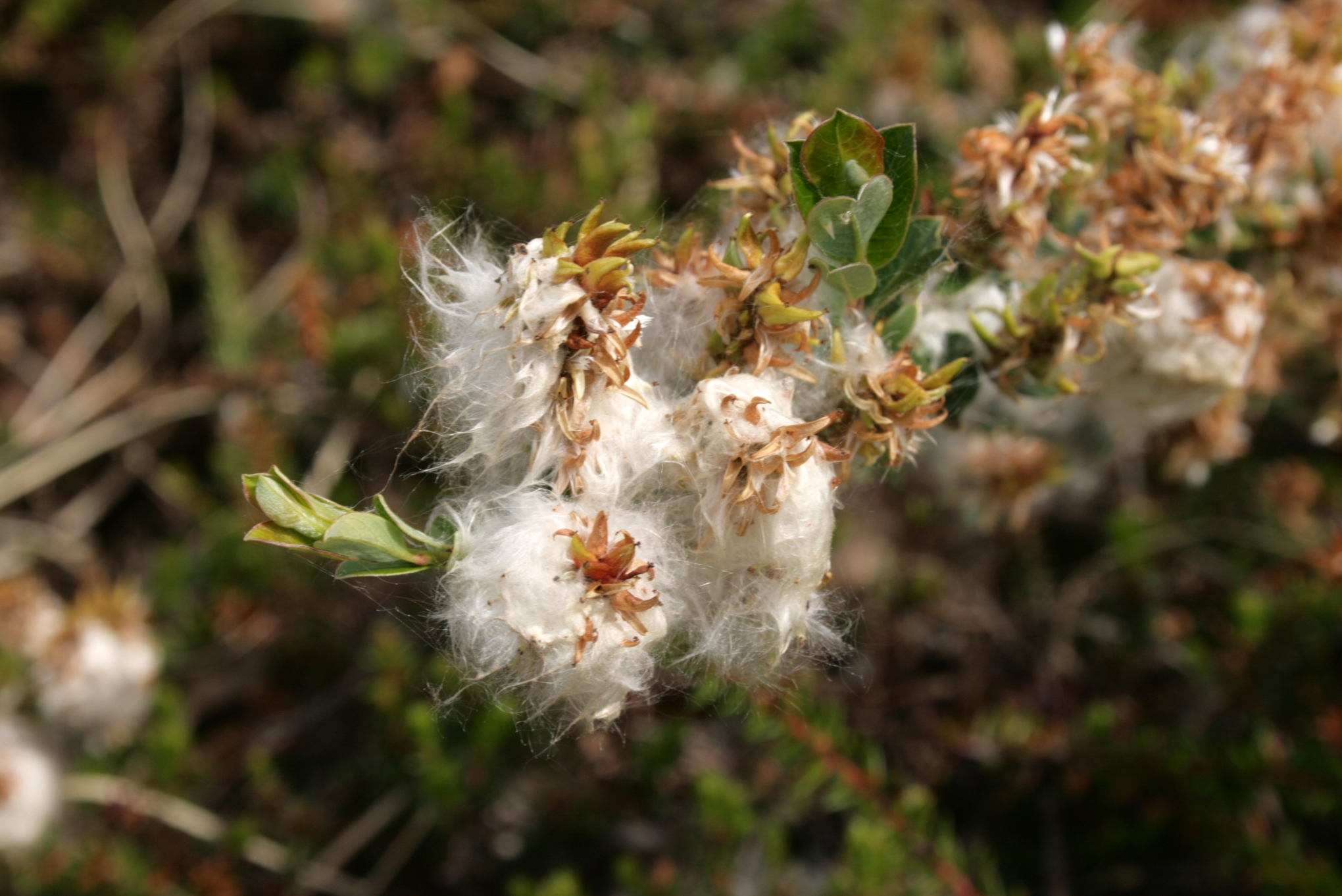 Salix repens: Ripe fruitsDansk: Krybende Pil (Salix repens): Modne frugter